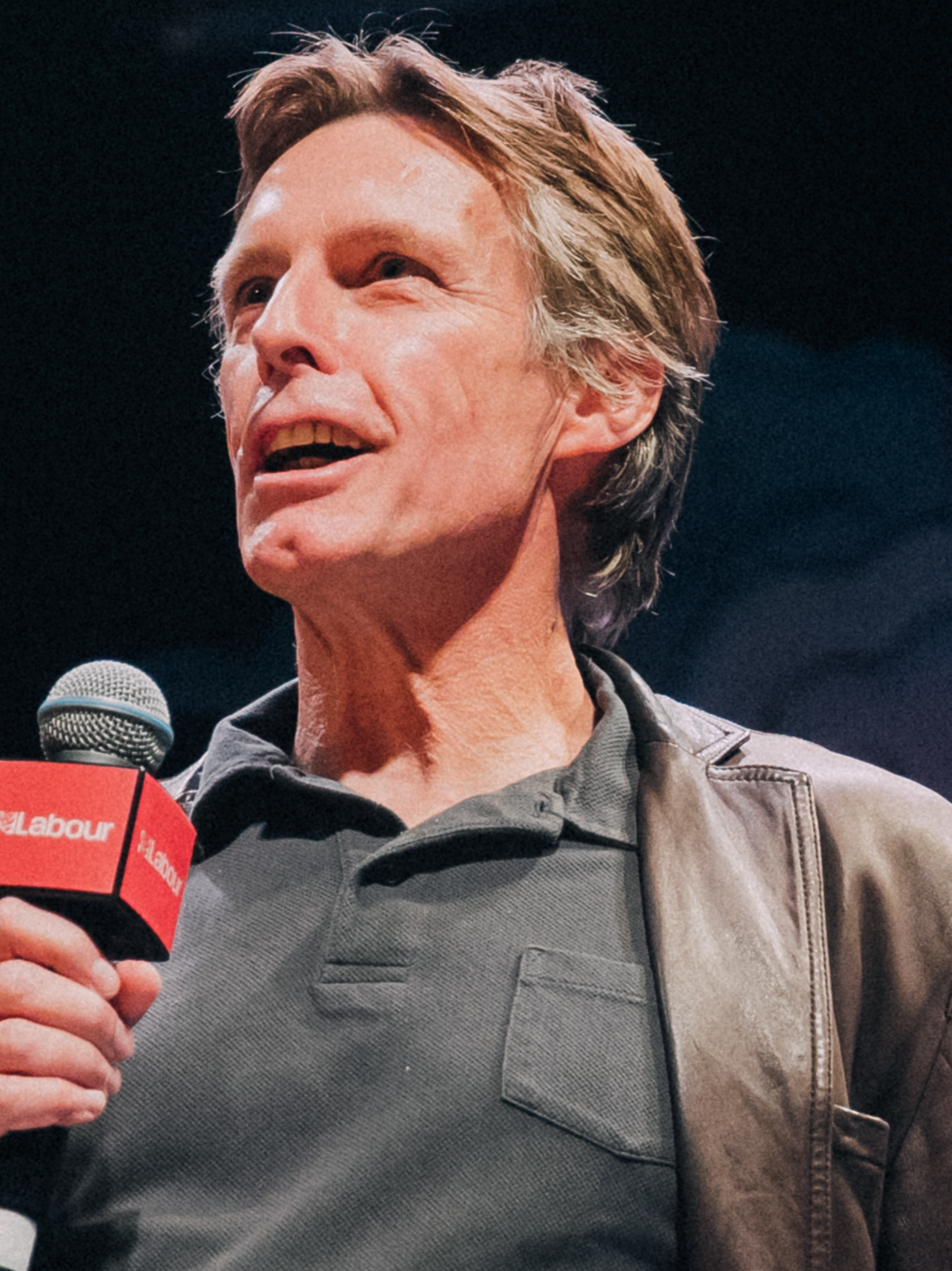 I was joined by industry icons as we celebrated the launch of Labour's Charter for the Arts. (23rd November, 2019) At the heart of Labour’s radical offer to this country is our fundamental belief that everybody, from all walks of life and all backgrounds, should be able to lead rich and fulfilling lives. If we are to achieve that vision in Government, central to our programme will be an unwavering commitment to support and properly fund the arts.